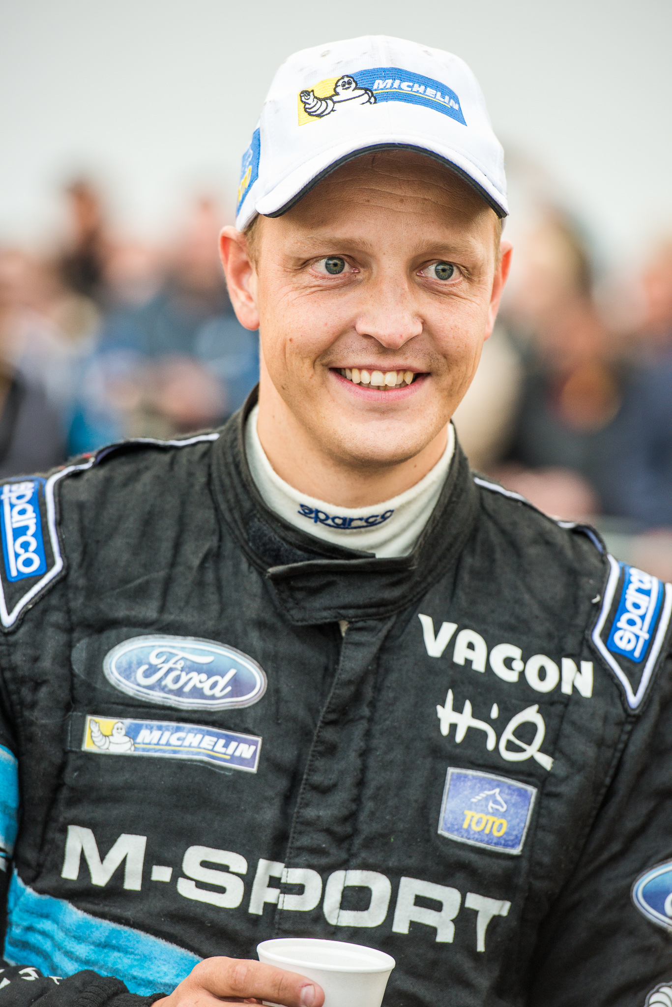 ADAC Rallye Deutschland 2014,FIA,FIA World Rally Championship,M-Sport WRT,M-Sport World Rally Team,Mikko Hirvonen,Motorsport,Rally,Rallye,WRC